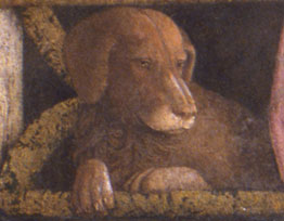 north wall of the Camera degli Sposi in the north east tower of the Castel San Giorgio, Mantua; detail: dog Rubino